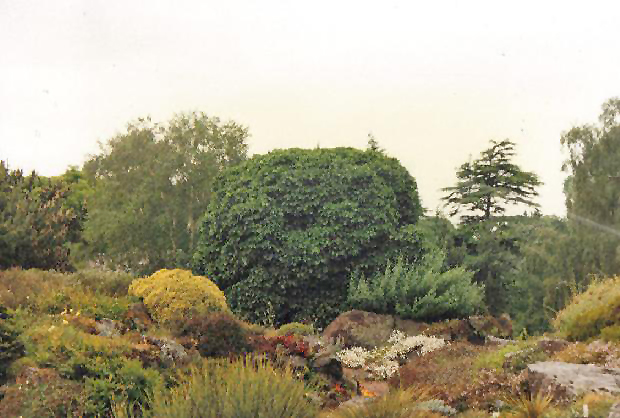 Edinburgh RBG, Elm Collection 1989, Specimen Tree 8; Habit-1